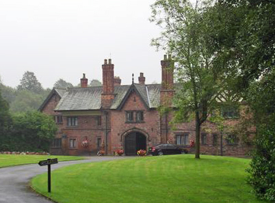 Wardley Hall The home of the Roman Catholic Bishop of Salford. Built c 1500 with restoration in the 19th Century. In this hall is a human skull placed in a small aperture at the top of the staircase. This is the skull of Saint Ambrose Barlow, who was a priest during the reign of William III. He was hung, drawn and quartered at Lancaster on September 10th 1641, having been arrested at another local Catholic family home (56434). His head was taken to a relative, living at Wardley Hall.